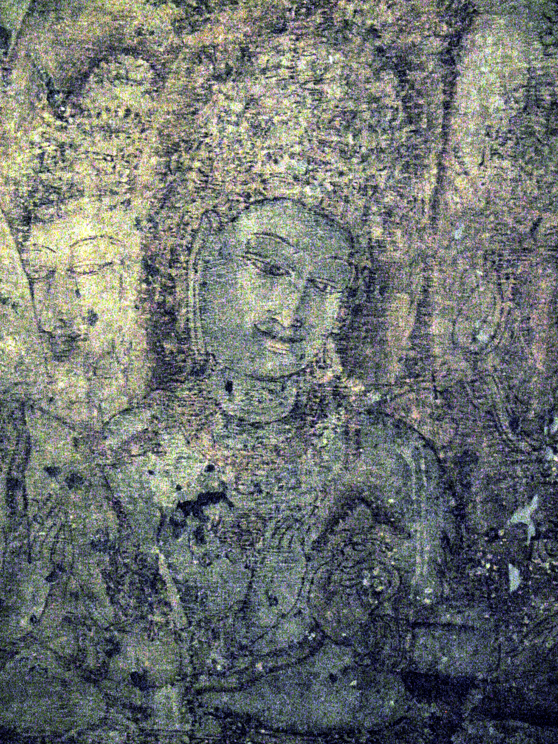 Tivanka is located north of Gal Vihara, at the boundary of Polonnaruwa's archaeological zone. Inside this large and squarish gedige, there are precious 12th-century paintings of Indian-like Bodhisattvas and Buddhist Jataka stories. A Bodhisattva of beautiful expression is imaged here, in the dim light of the interior.